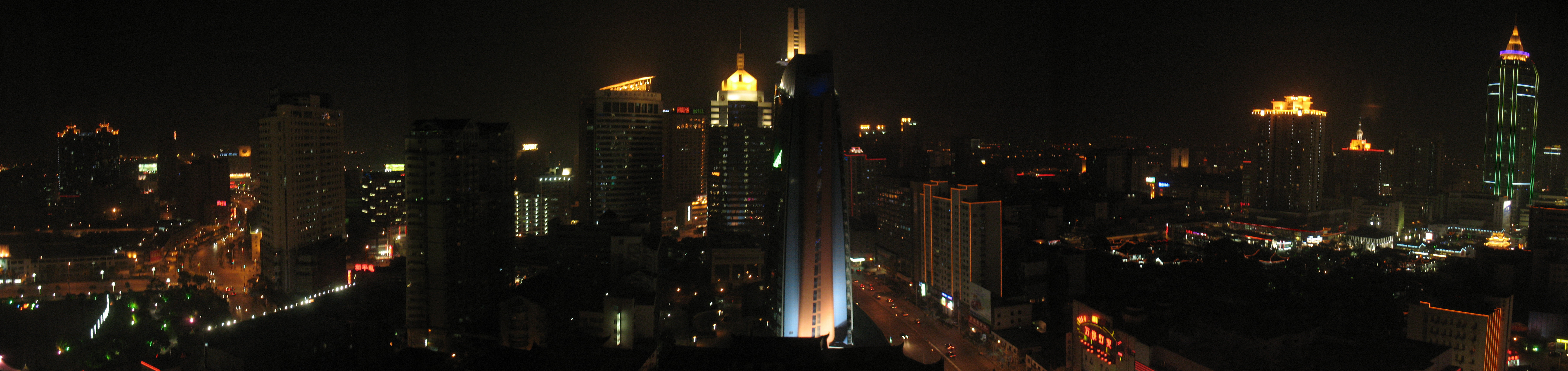 Panoramic view of downtown Wuxi, China at night.